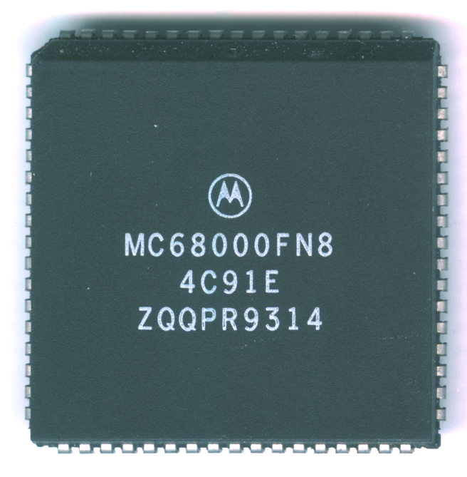 IC photo